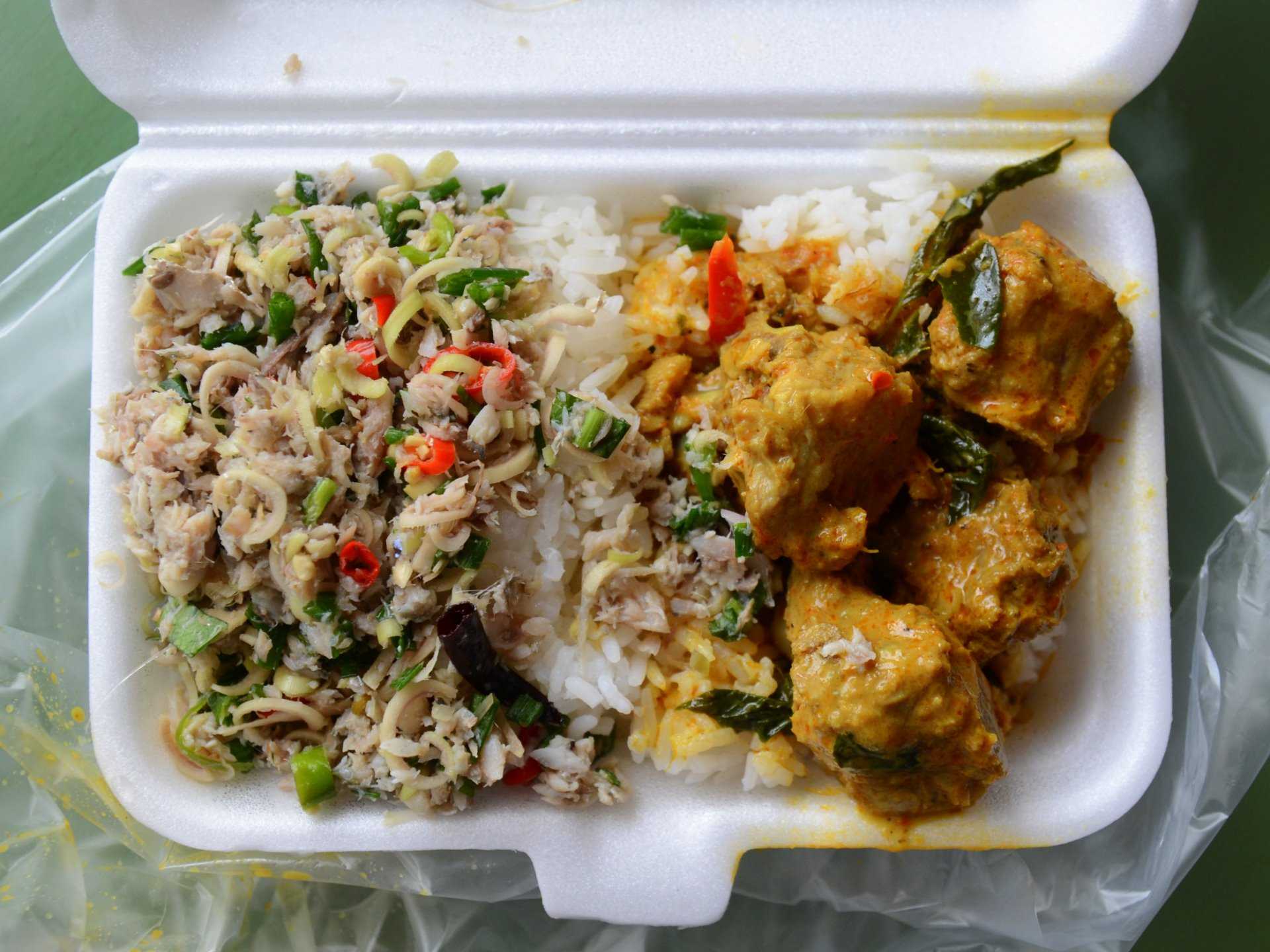 Many Thai people buy prepared food from street stalls instead of taking a lunch box from home. The dish on the left is yam plathu, a spicy salad of shredded steamed mackerel with fresh bird's eye chillies, dried chillies, fresh lemon grass, lime juice and culantro. The dish on the right is khua kraduk mu, a very spicy "dry" Southern Thai curry with pork ribs. The whole packet cost 30 baht from a street stall in Bangkok on Rama 4 road.